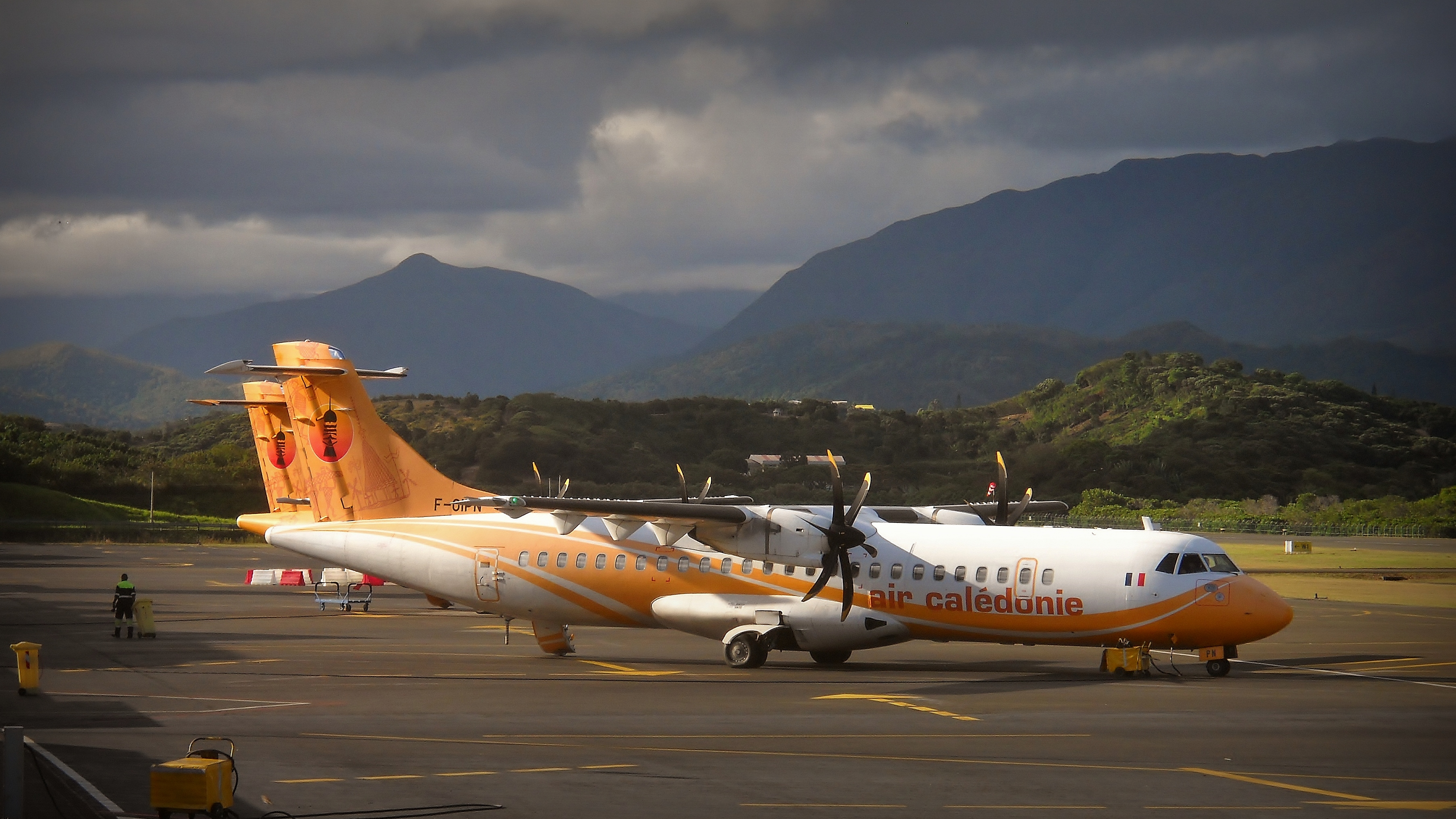 Air Calédonie ATR 72-500 (F-OIPN) at Nouméa Magenta Airport